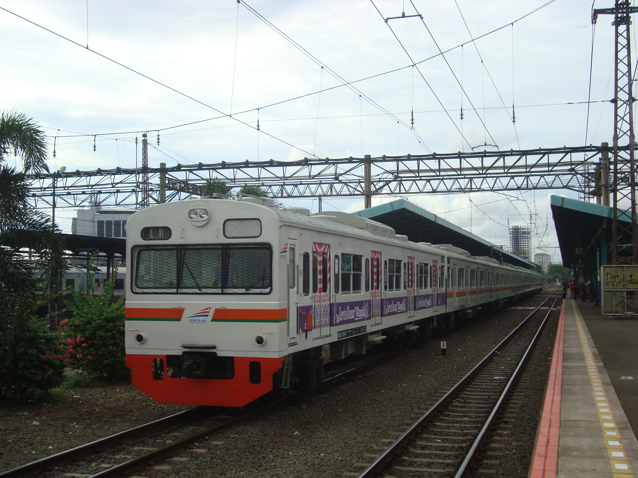 Former JR East Musashino Line 103 series EMU operated by Indonesian Railways PT. Kereta Api Indonesia (Persero) in Jakarta Metropolitan Commuter Area (Jabodetabek) carrying a new white and livery based on the JR Central livery